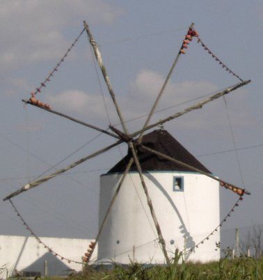 Picture of a mediterranean style tradicional windmill. This being from Portugal.